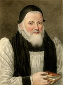 A watercolour and gouache (bodycolour) portrait of John Still (c. 1543 – 26 February 1607/8), the Bishop of Bath and Wells. The work was possibly copied from a contemporary portrait, as Harding was known as a copyist of portrait paintings.